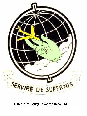 19th Air Refueling Squadron Patch